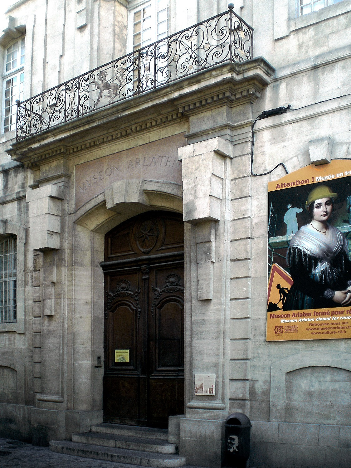 Museon Arlaten - Arles (Bouches-du-Rhône, France)